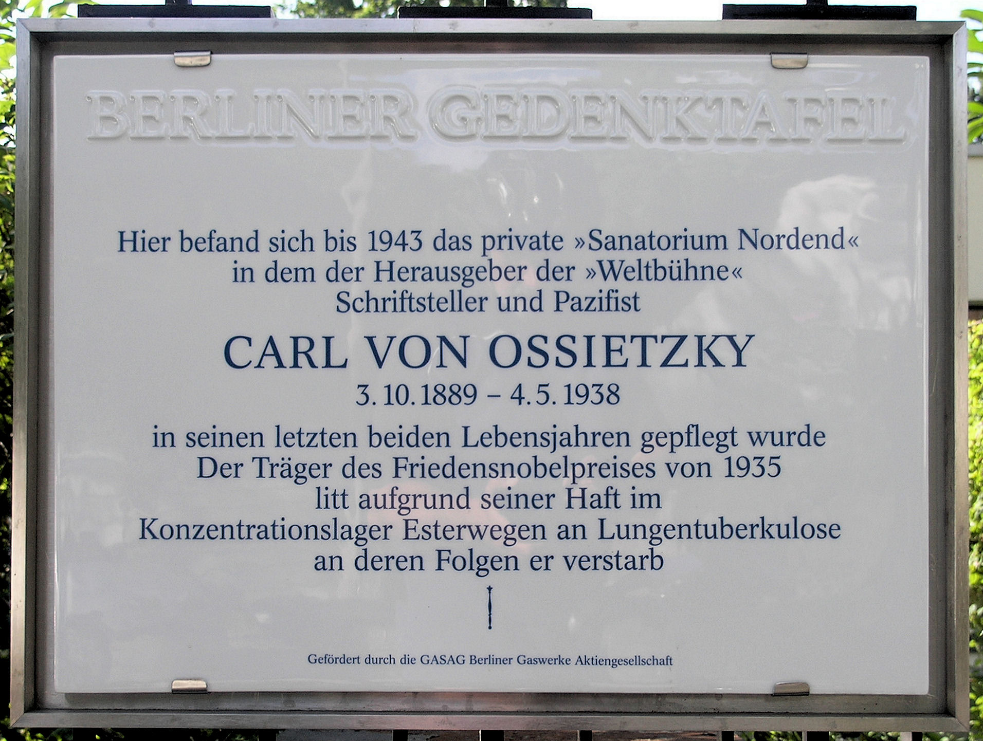 Berlin memorial plaque, Carl von Ossietzky, Mittelstraße 6, Berlin-Rosenthal, Germany